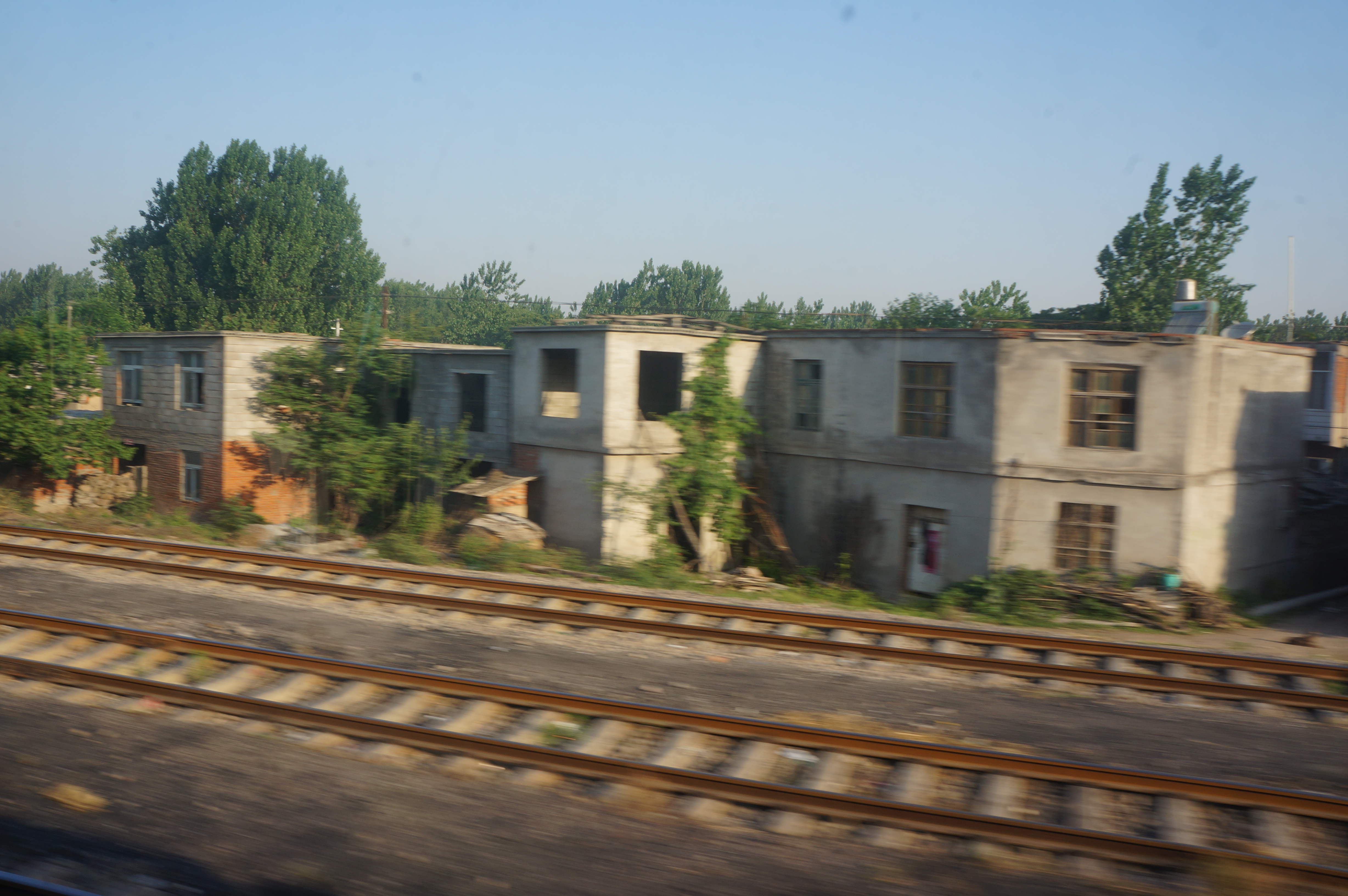 201705 Tracks at Xiquanjie Station